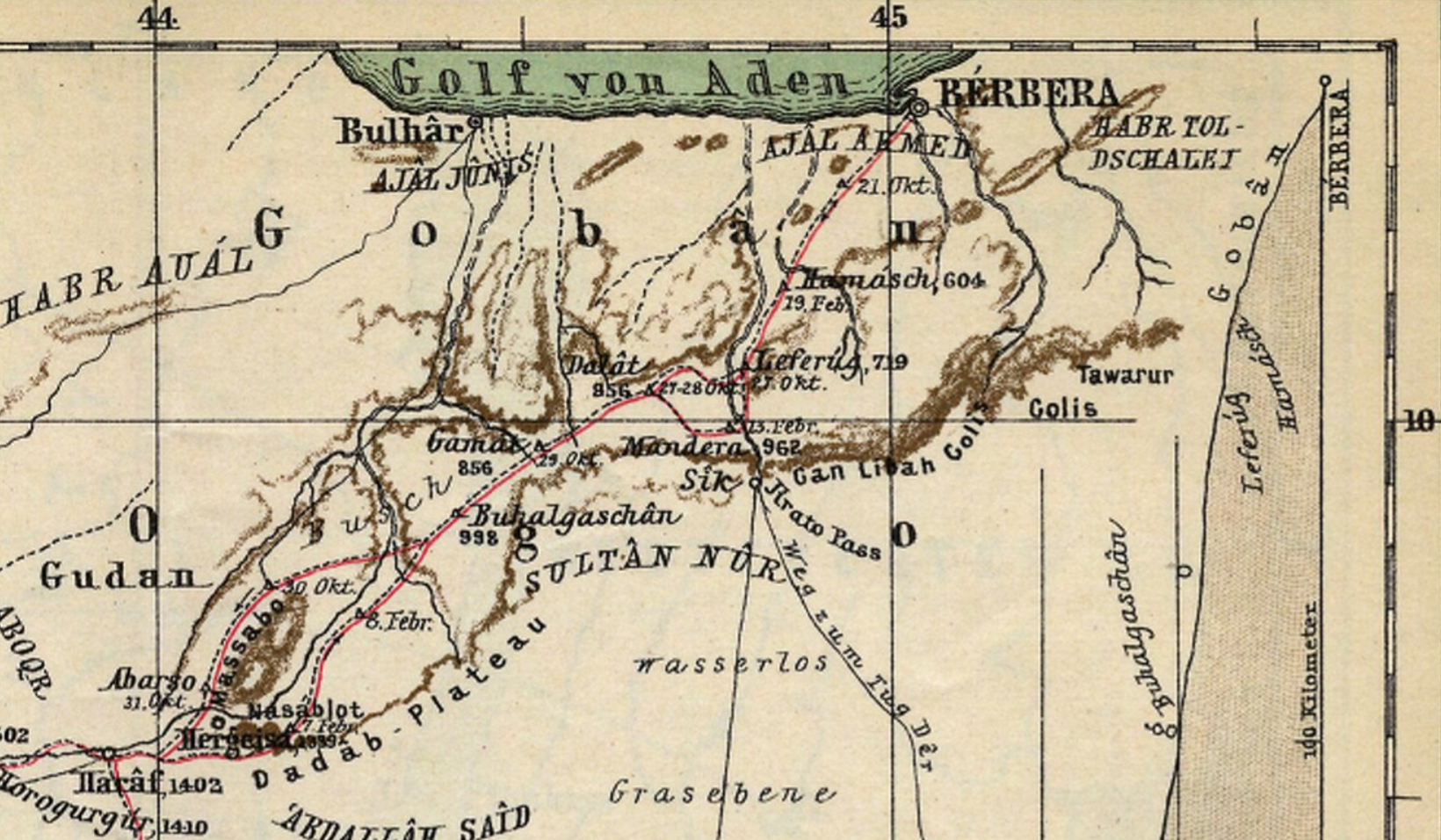 A map made in 1896 by German Cartographer Paulitschke Philip, showing central British Somaliland.